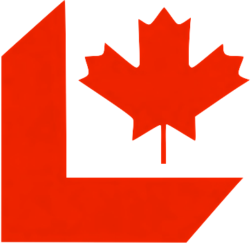 Logo of the Liberal Party of Canada circa 1974.